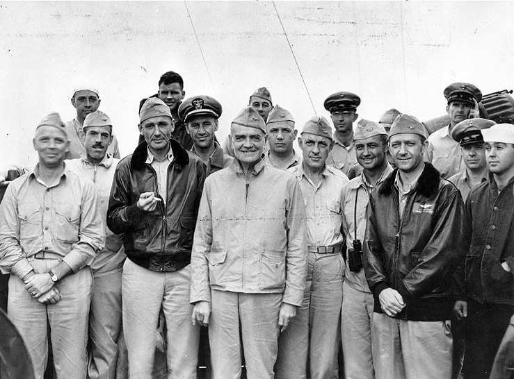 Photo #: 80-G-464485 (complete caption) Vice Admiral William F. Halsey, Jr., USN (center) With members of his staff, while he was Commander Aircraft, Battle Force, Pacific Fleet, in late 1941, or Commander Task Force 16, in the first months of 1942. Photographed on the bridge of USS Enterprise (CV-6). Those present are (from left to right): Lieutenant Colonel Julian P. Brown, USMC; Lieutenant Horace D. Moulton, USNR; Lieutenant Commander Sherman E. Burroughs, Jr., USN; Commander Miles R. Browning, USN, Chief of Staff; Chief Signalman R. Gardner, USN; Lieutenant Commander Gale E. Griggs, USN; Vice Admiral Halsey; Captain Bankston T. Holcomb, Jr., USMC; Lieutenant Commander Leonard J. Dow, USN; Commander Bertram Groesbeck, Jr., USN(MC); Chief Quartermaster H.G. Gibson, USN; Lieutenant Commander William H. Ashford, Jr., USN; Lieutenant Commander Bromfield B. Nichol, USN; Commander William H. Buracker, USN; Chief Yeoman P.T. Hunt, USN; Chief Yeoman H.C. Carroll, USN; and Yeoman I.N. Bowman, USN. Official U.S. Navy Photograph, now in the collections of the National Archives.